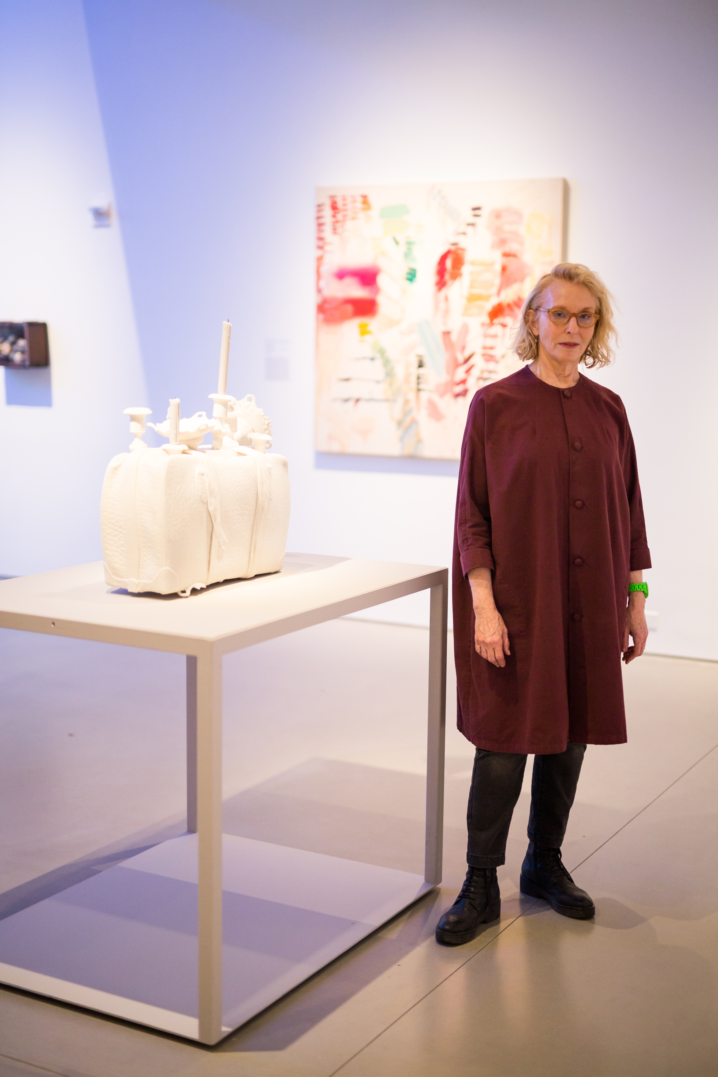 The Jewish Museum's first Wikipedia Edit-a-thon co-presented with Art + Feminism featured a Wikipedia training and artist talks with Jewish Museum collection artists Joan Semmel and Arlene Shechet.